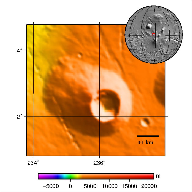 Topography map of shield vulcano Biblis Patera on Mars